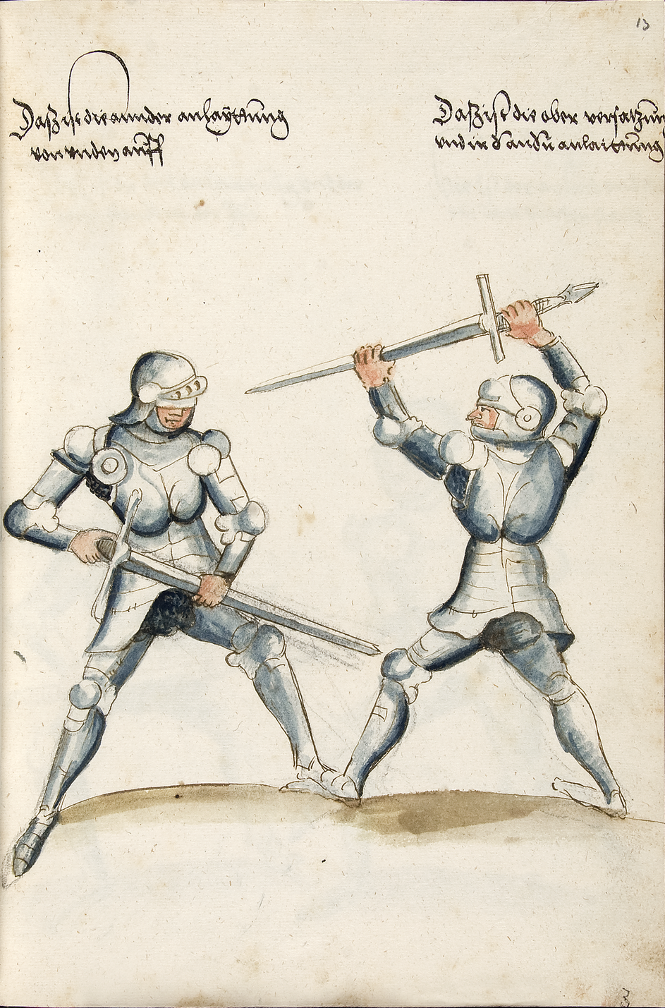 The Cod.I.6.2º.1 is a manuscript commissioned by Paulus Hector Mair in 1561, copied from a manuscript written by Hans Talhoffer between 1446 and 1459.